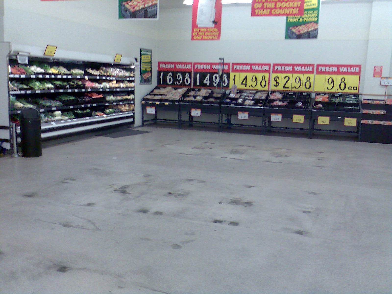 Former BILO Southland store.